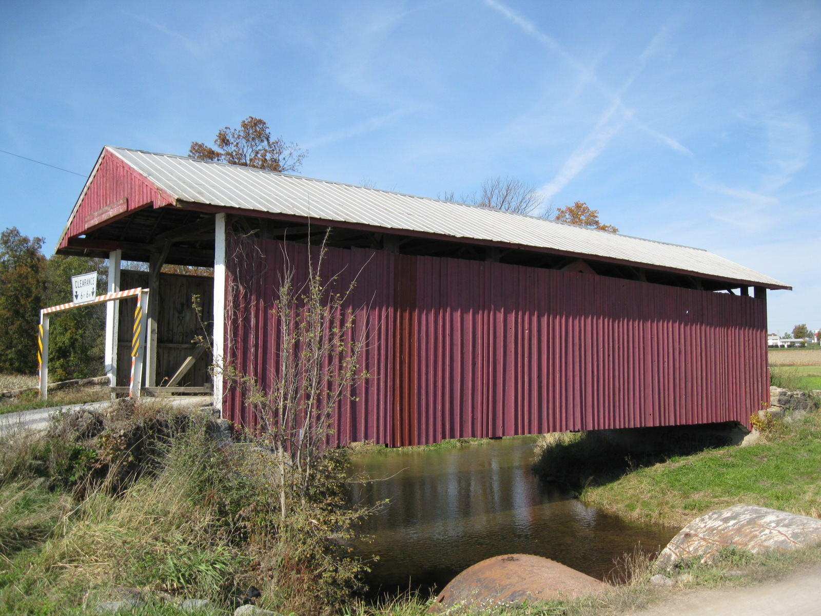 Side of the Hayes Bridge, located west of Mifflinburg in West Buffalo Township, Union County, Pennsylvania, United States. Built in 1882, this king truss covered bridge is listed on the National Register of Historic Places.